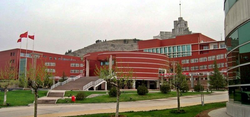 Photograph of the Qilu Software College at Ruanjianyuan Campus of Shandong University in Jinan, Shandong Province, China, in April 2005.